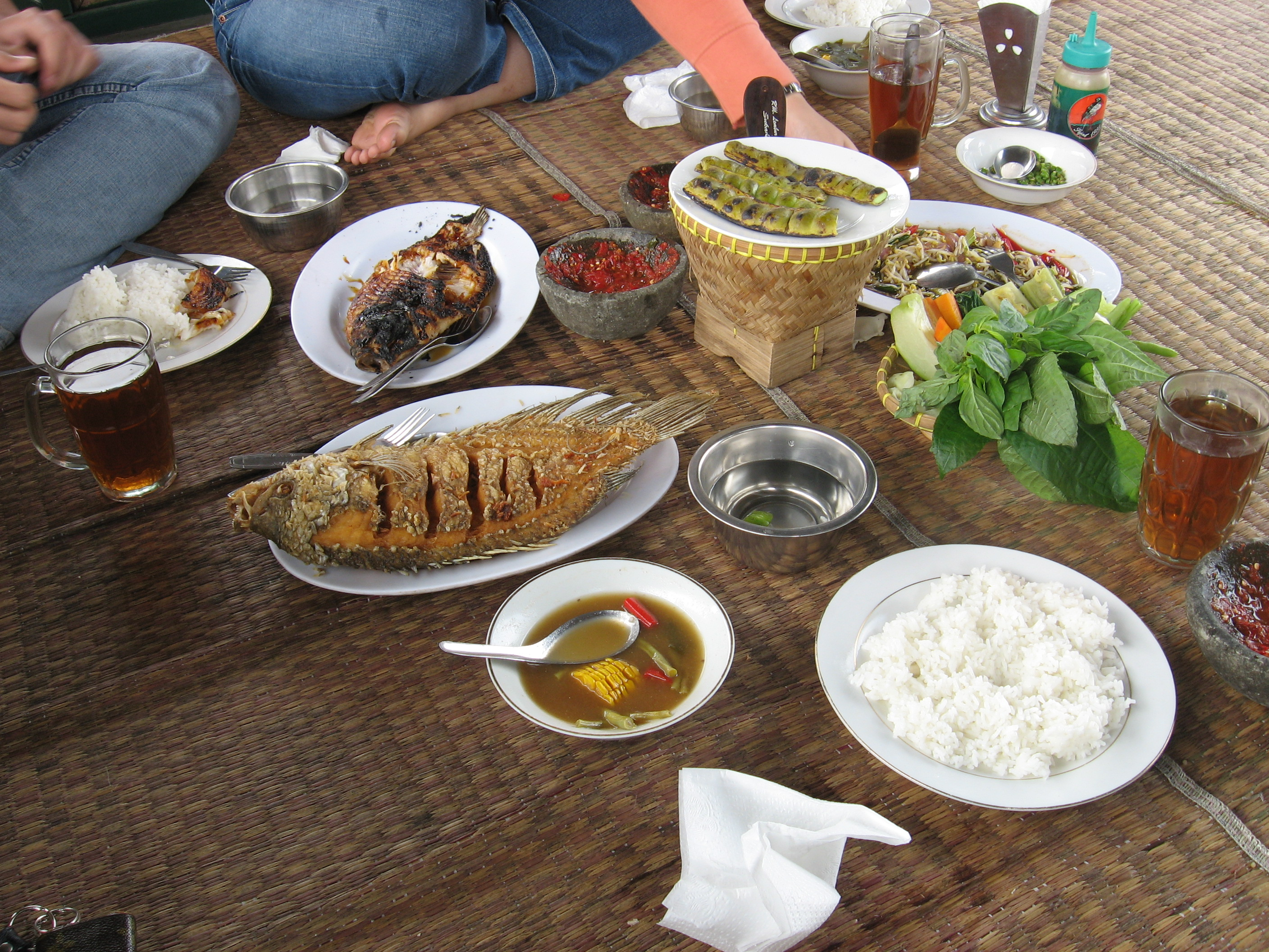 Cuisine of Sundanese, West Java, Indonesia